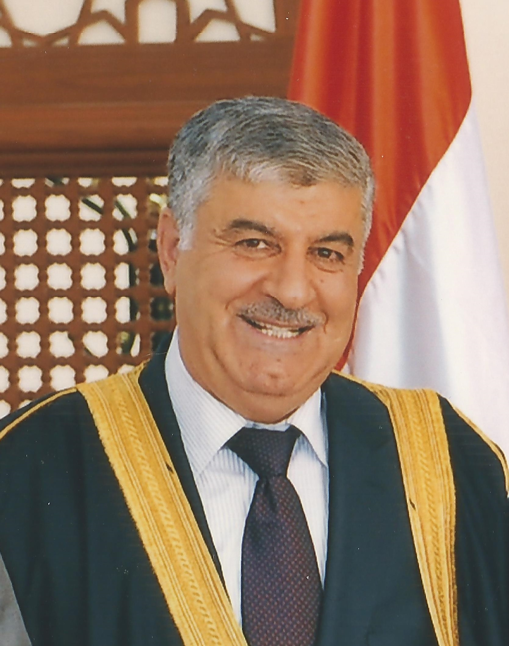 mr. Asaad Ali Yaseen at a meeting